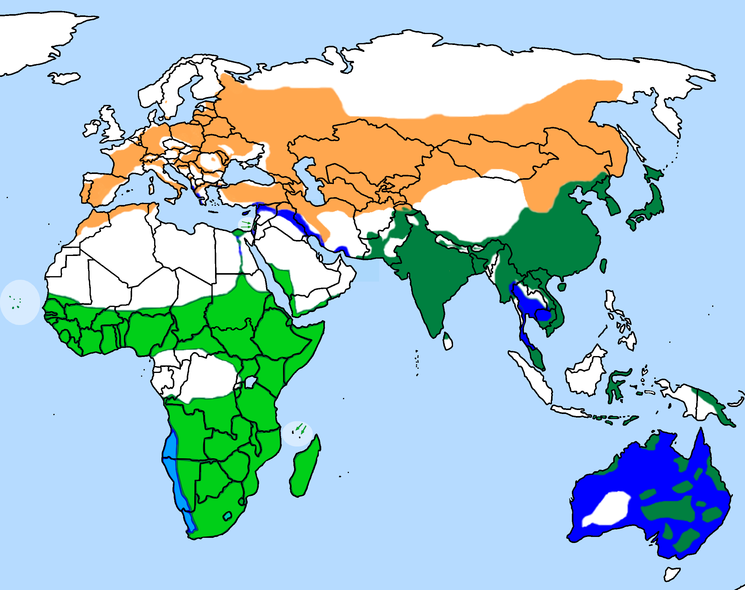 Distribution Map of Milvus migrans and Milvus aegyptius Distribution: Milvus migrans breeding range - Orange Milvus migrans year round - dark green Milvus migrans winter - blue Milvus aegyptius - light green